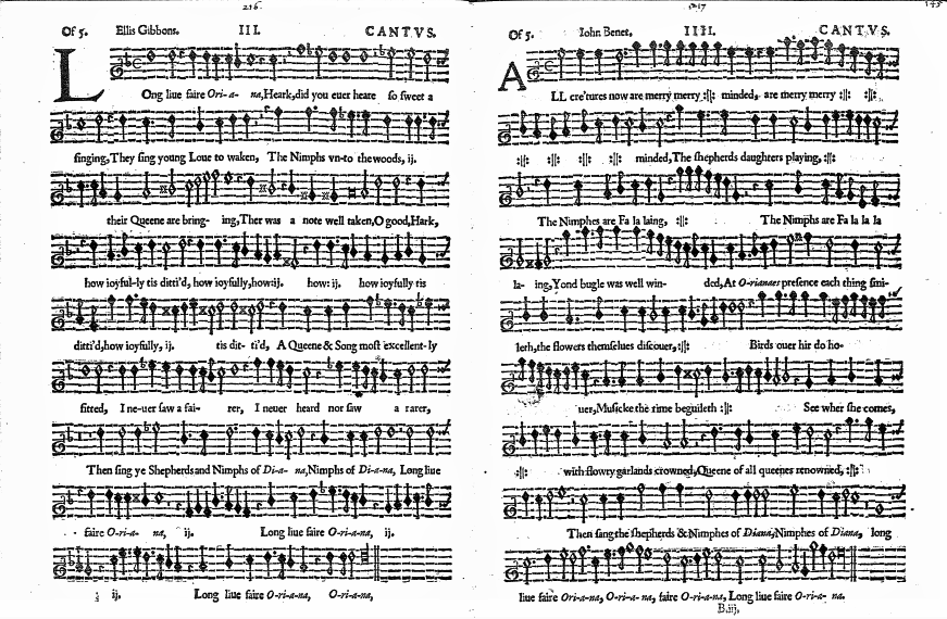 Alto part for a madrigal from Thomas Morley's The Triumphs of Oriana